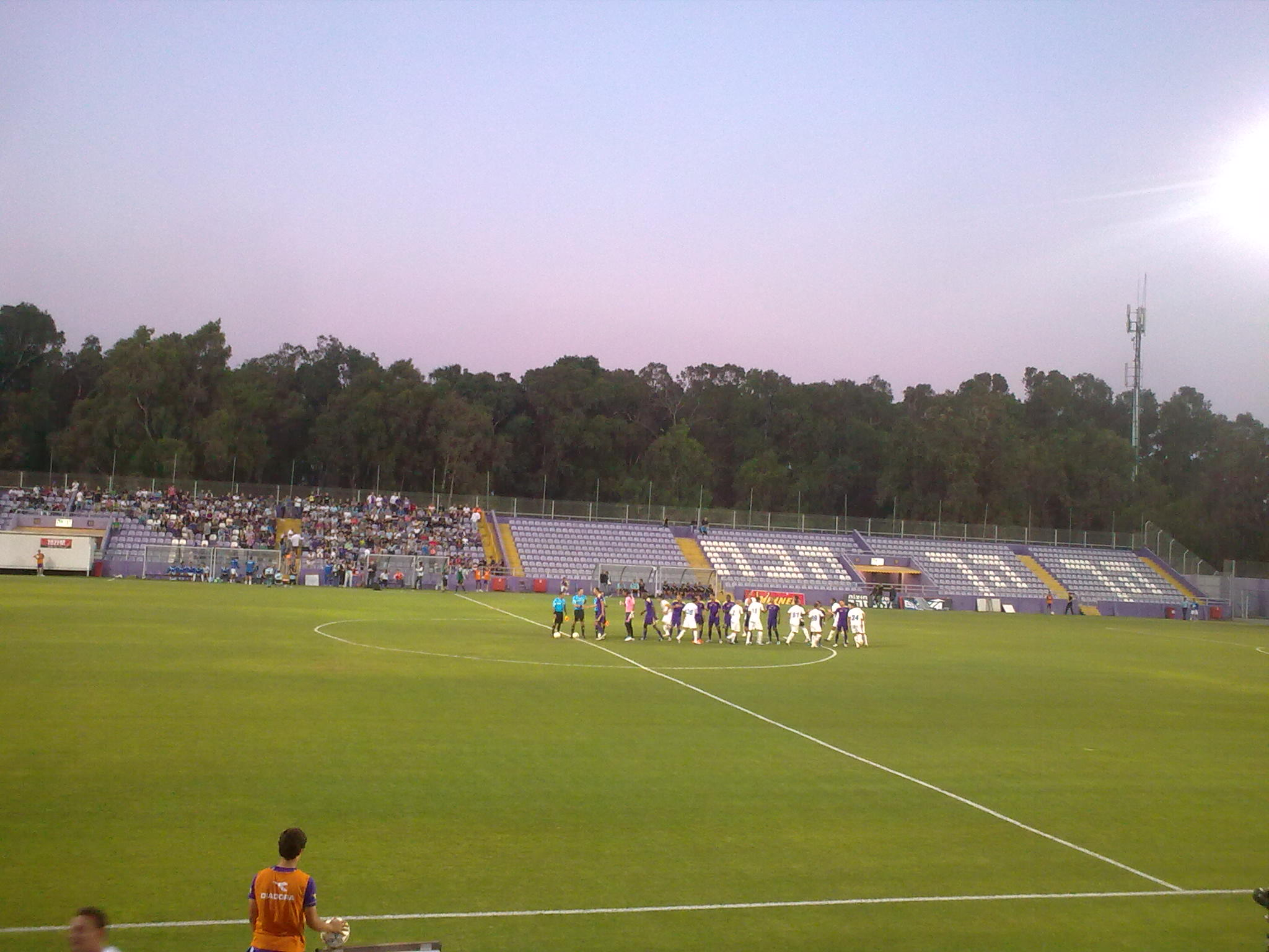 Winter Stadium